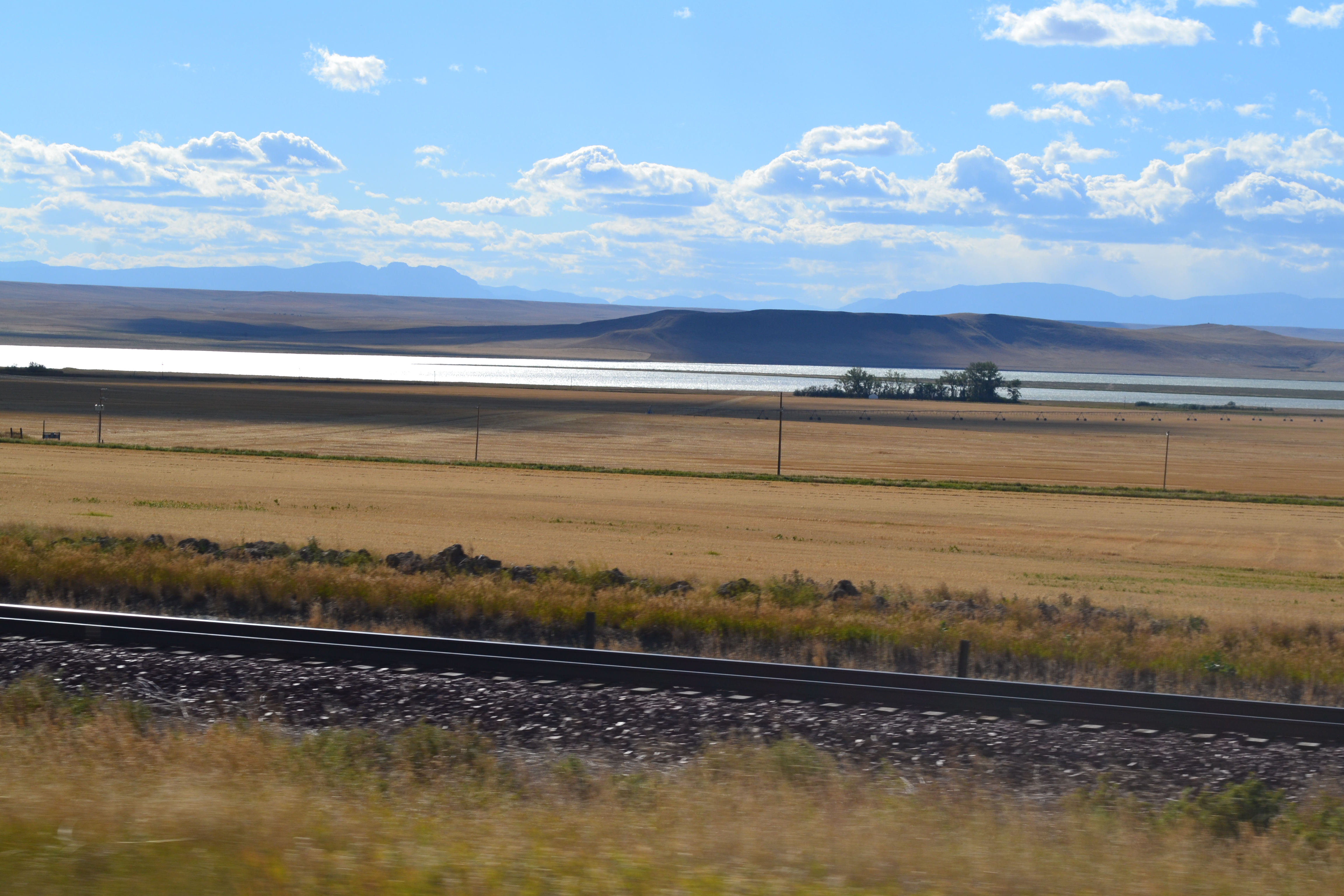 Freezeout Lake near Fairfield, Montana